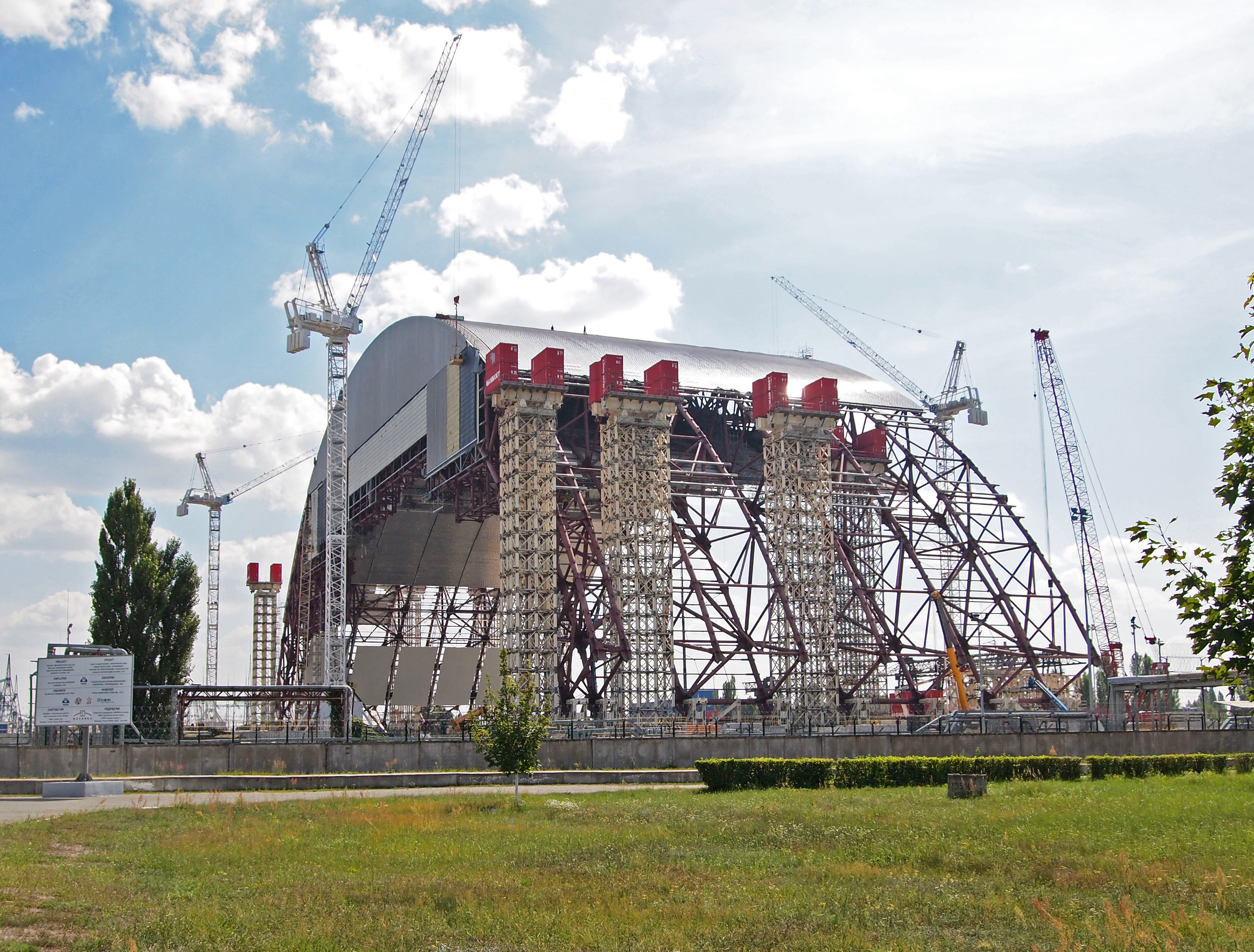 Sarcophagus under construction in Chernobyl Exclusion Zone, Ukraine.